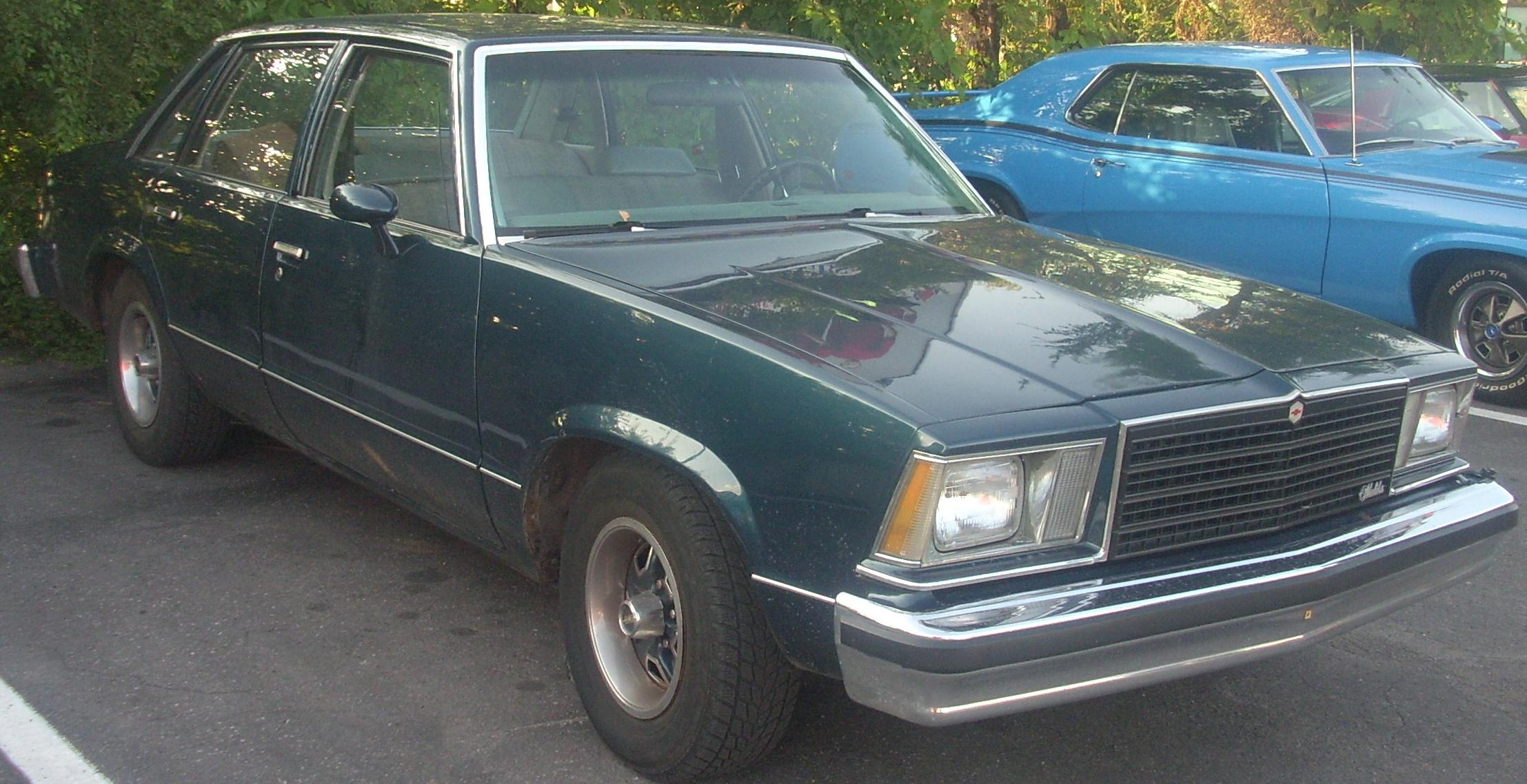 1979 Chevrolet Malibu photographed in Montreal, Quebec, Canada at Gibeau Orange Julep.